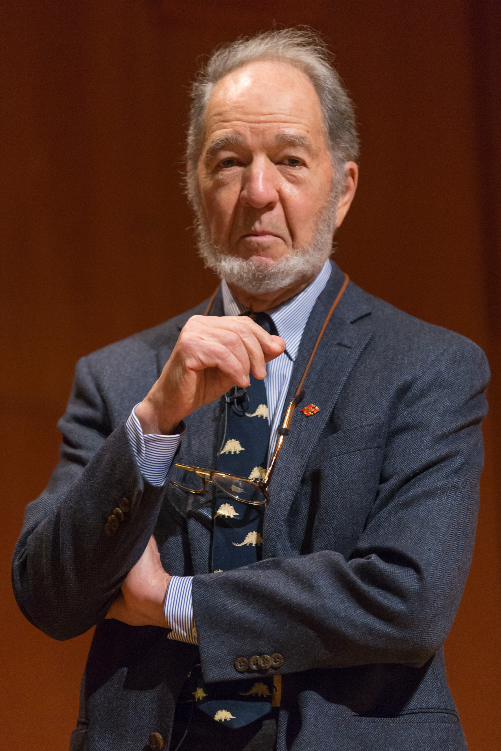 Jared Diamond, author of "Guns, Germs, and Steel." Taken 2016.